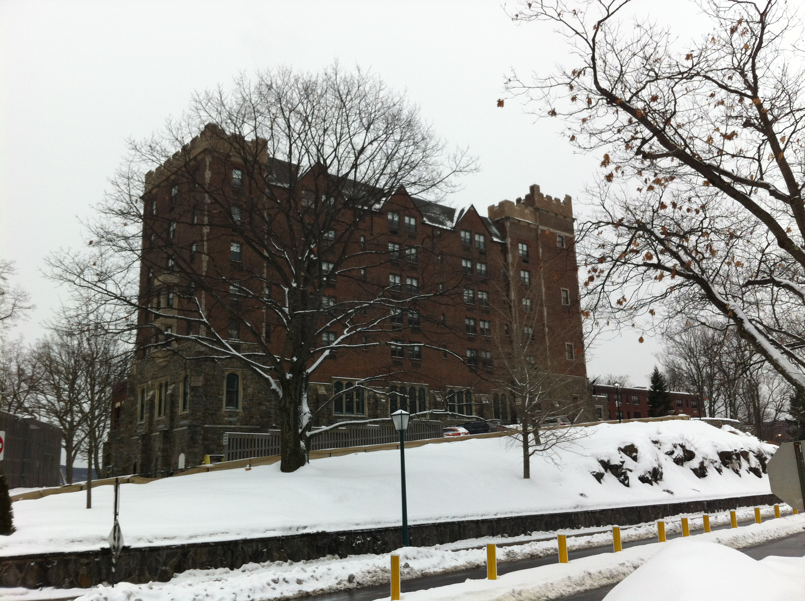 The Thayer Hotel, 674 Thayer Road, West Point, New York.